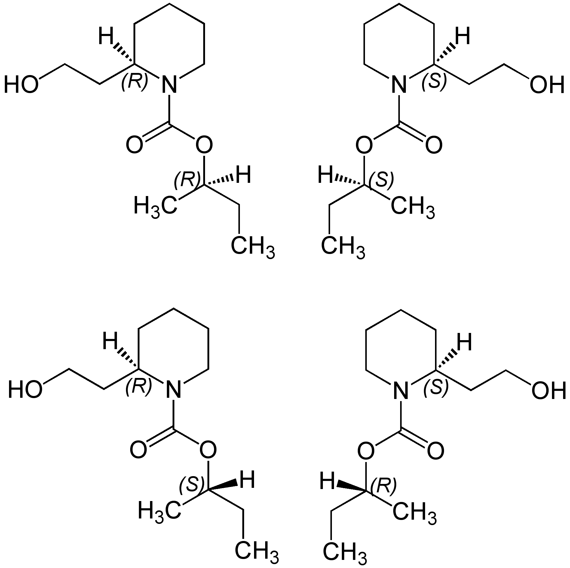 Icaridin_Stereoisomers_Structural_Formulae